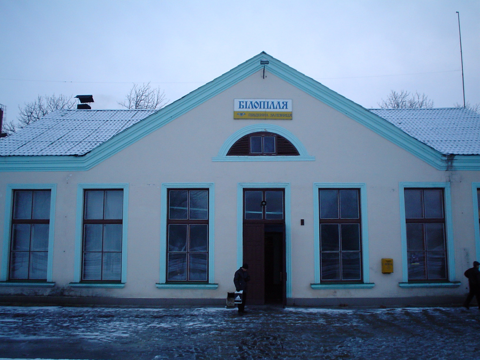 The Bilopillya trainstation.